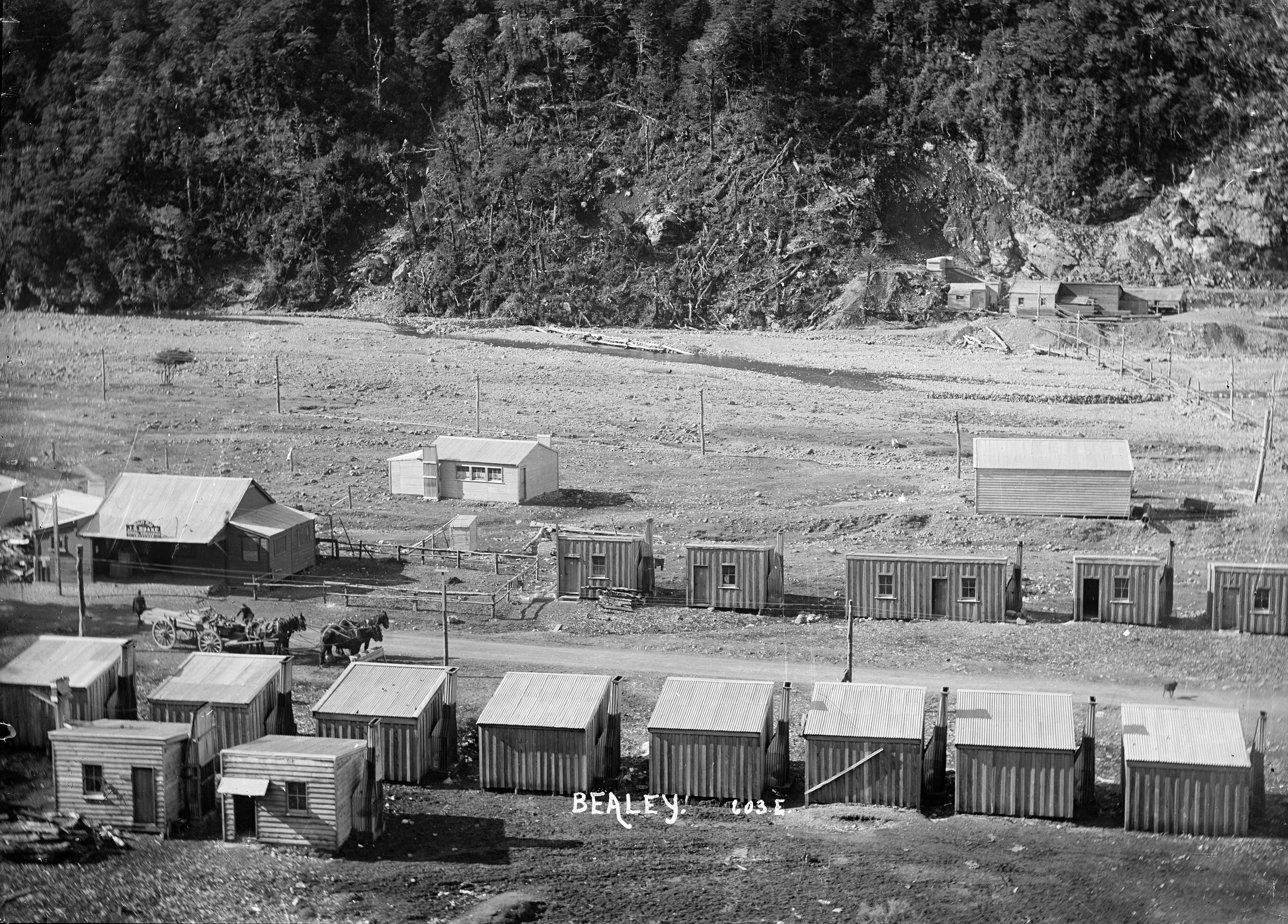 View of Bealey Flat, showing rows of small houses on either side of the road. A cart drawn by four horses is visible centre left, with a building showing the sign J S Brake, Bealey Flat, behind. A steeply rising hill is separated from the houses by a wide river flat, with only a narrow stream running through. In the background is the Otira Tunnel under construction.